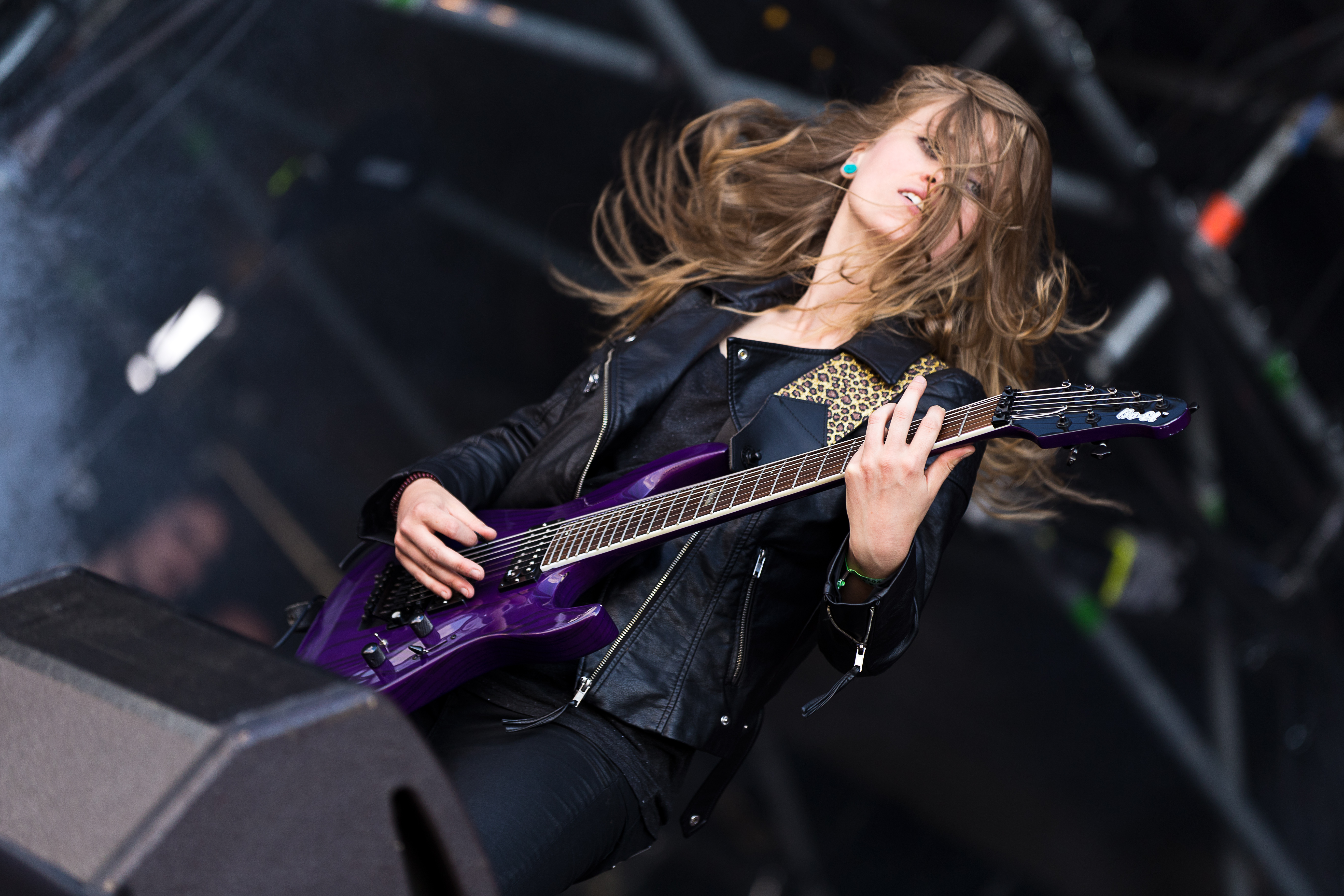 The Dutch symphonic metal band Delain at the Rockharz Open Air 2015 in Ballenstedt/Germany.